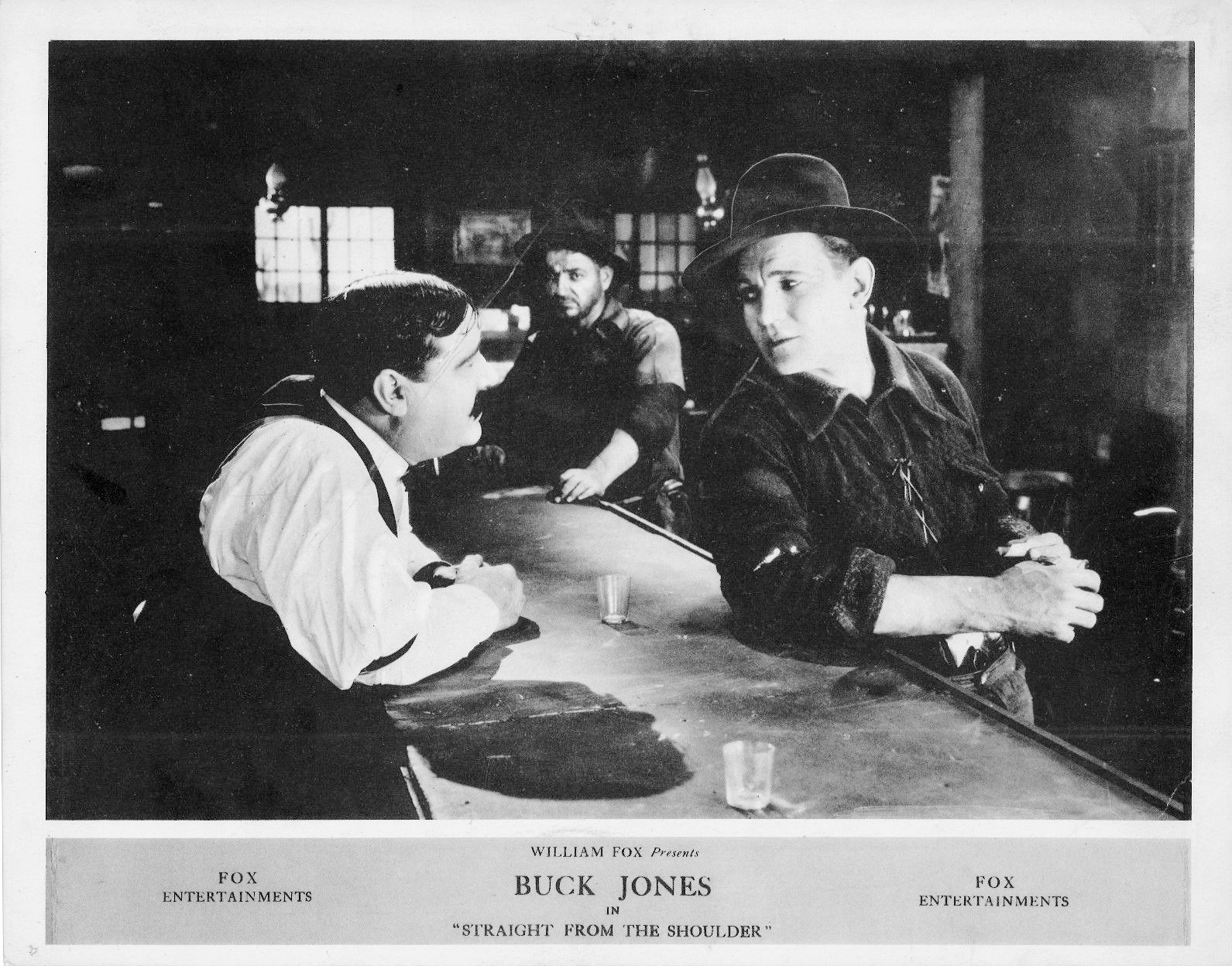 Lobby card for the 1921 film Straight From the Shoulder.